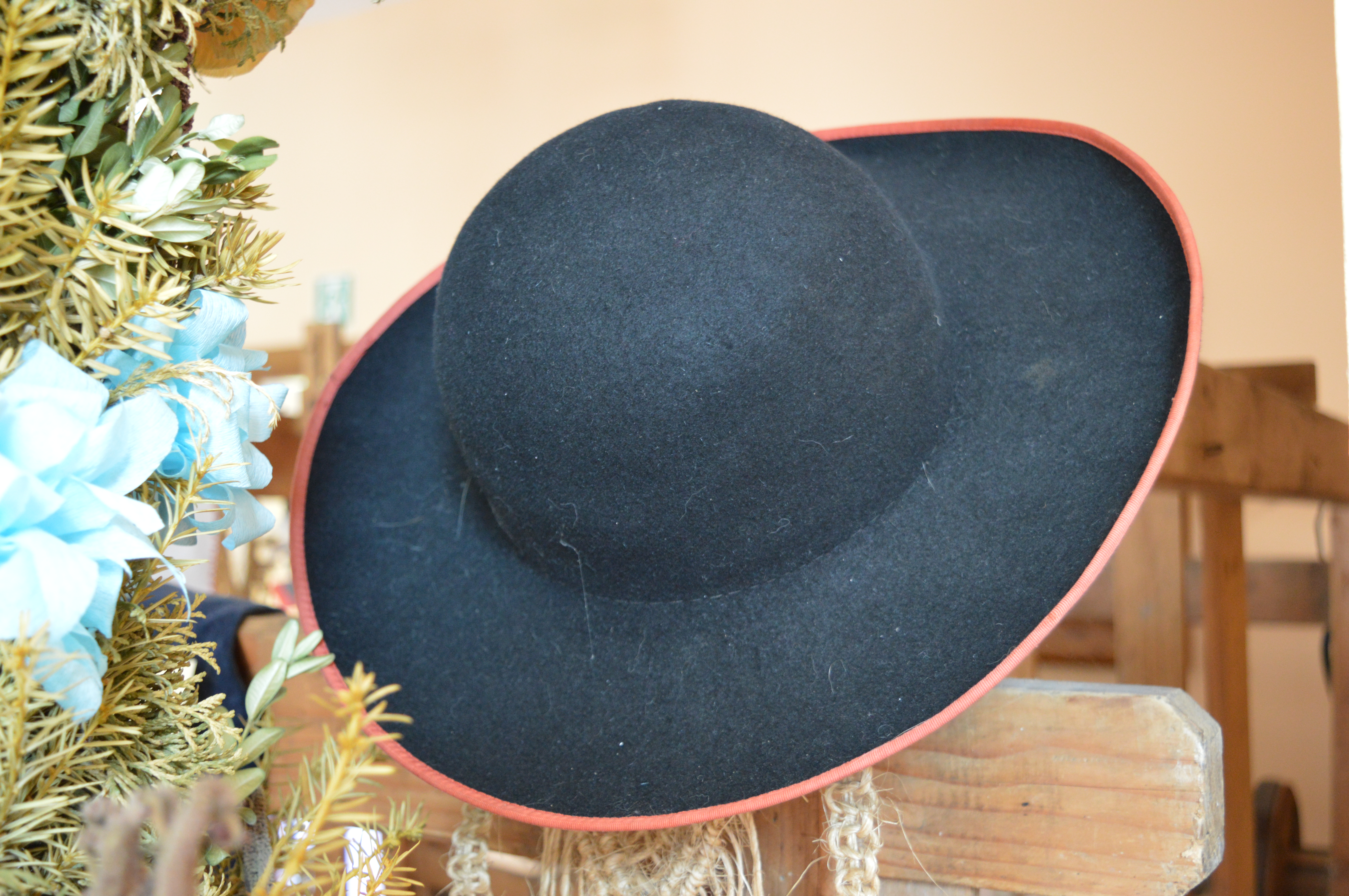 Hat from the Beskid region, from the Heritage Museum in Glinka/Ujsoły